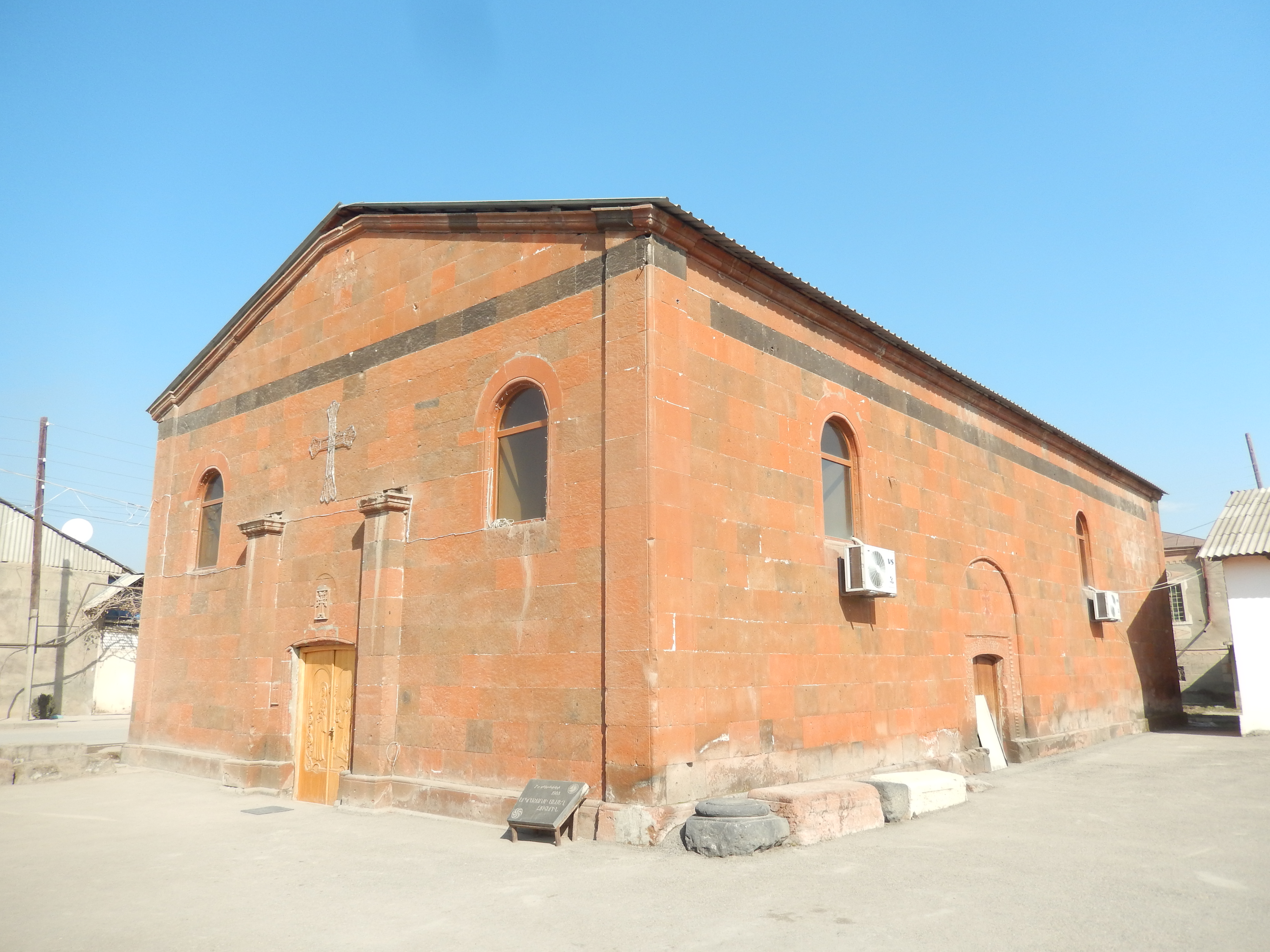 St Mary Church, Verin Artashat